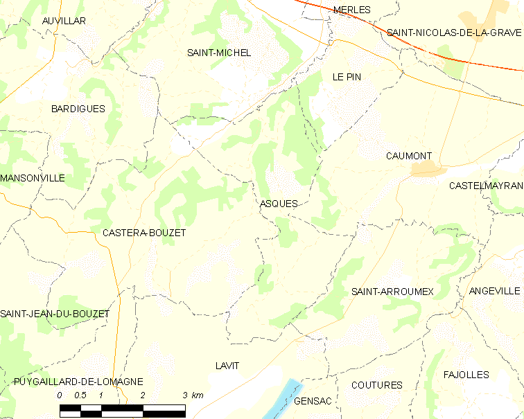 Map of French municipality Asques